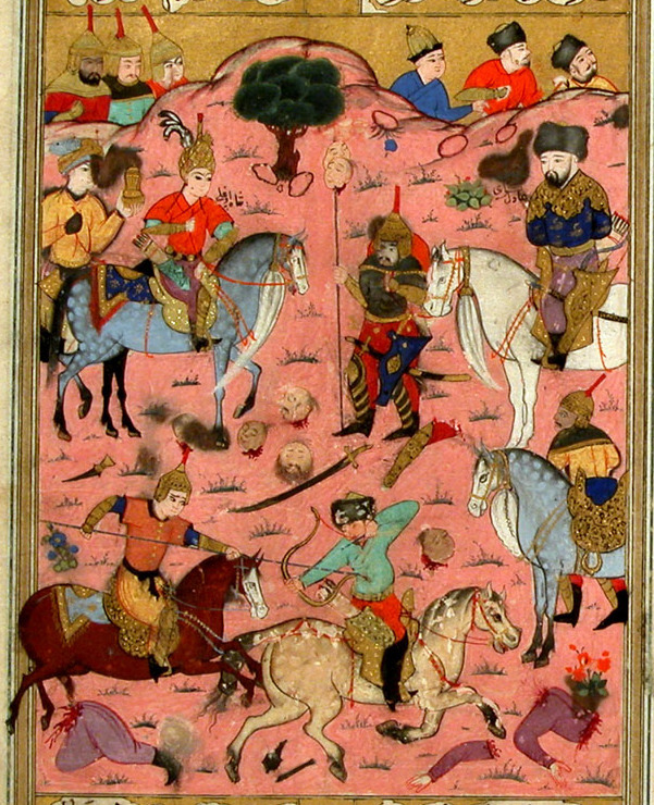 A miniature of Hamza Mirza, receiving the surrender of Adil Khan Giray, in Shirvan in November 1587